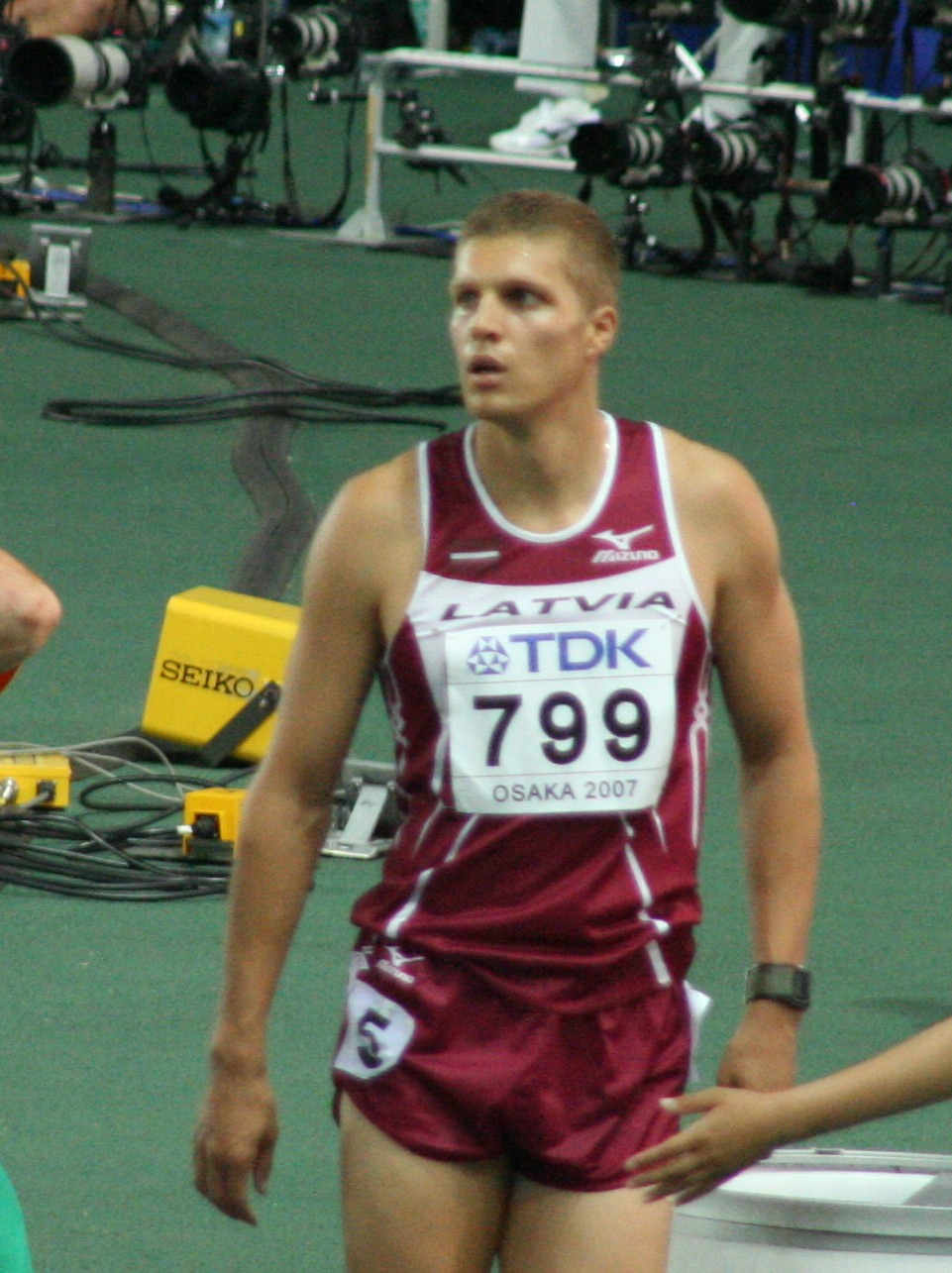 World Athletics Championships 2007 in Osaka - Latvian 110 metres hurdles runner Stanislavs Olijars after his (unsuccessful) semifinal